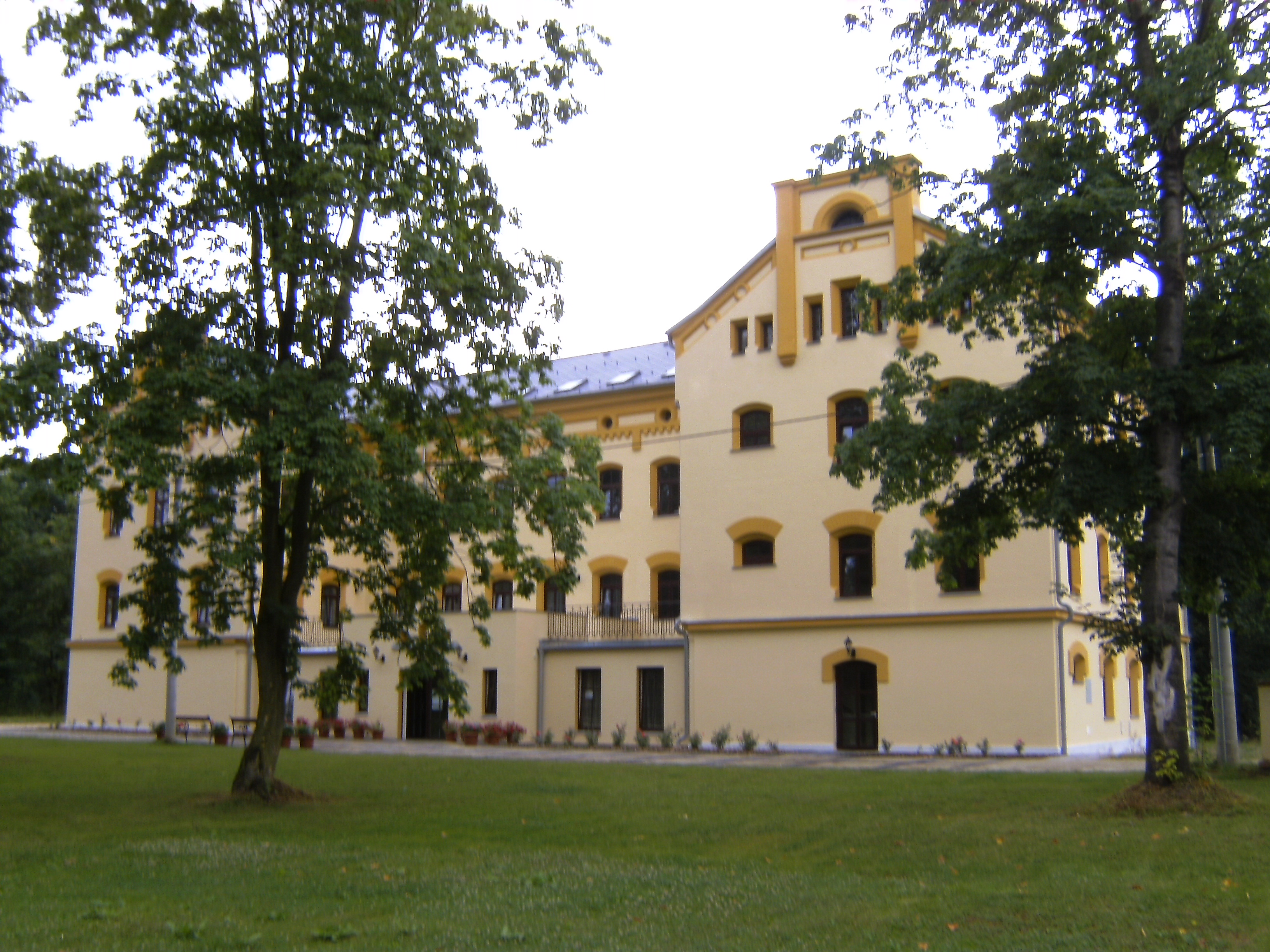 Mostov Castle